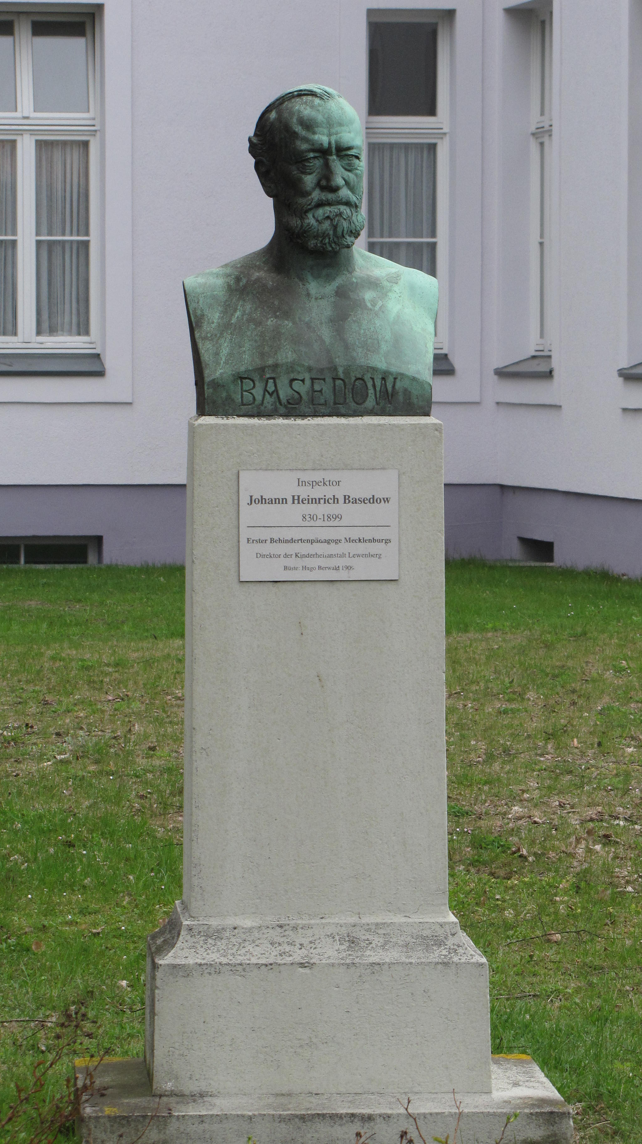 Sachsenberg (Schwerin)